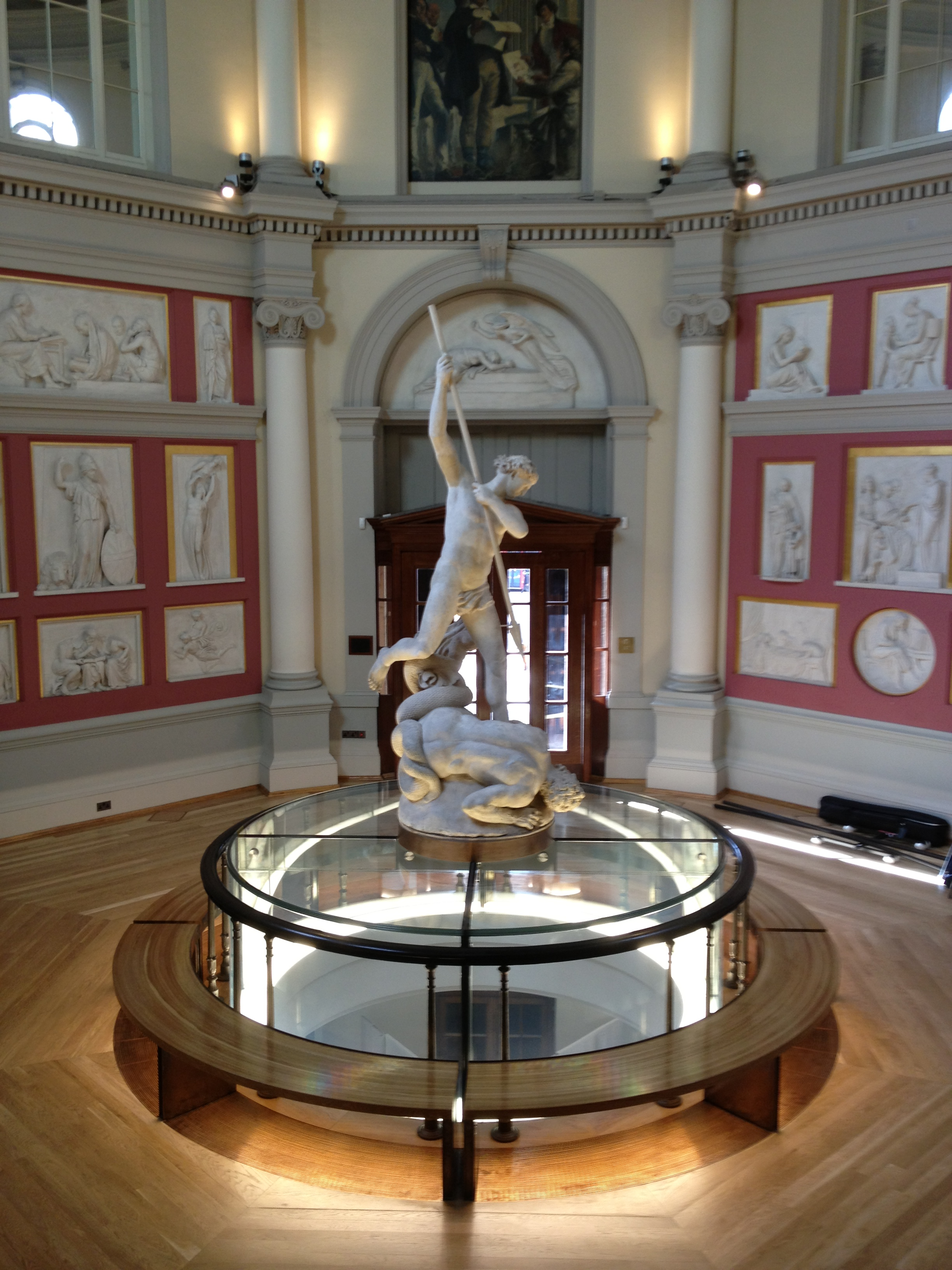 The top of the oculus in the Flaxman Gallery, University College London. The sculpture is John Flaxman’s St Michael Overcoming Satan.